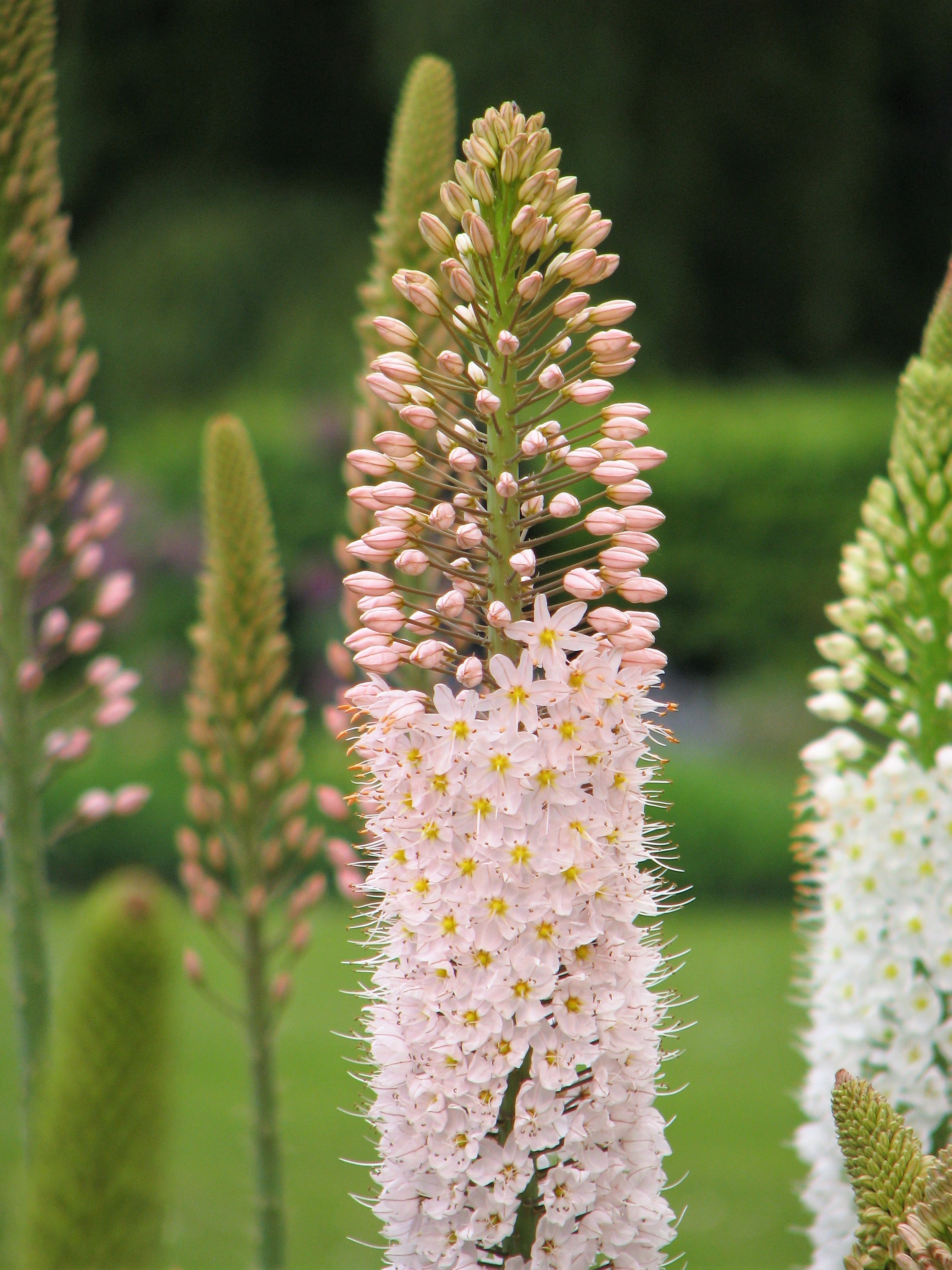 Eremurus robustus, infrorescences, plants cultivated in Wrocław University Botanical Garden, Wrocław, Poland.